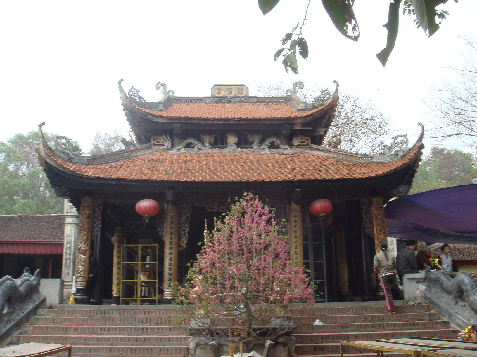 Inside the Temple of Bà Chúa Kho